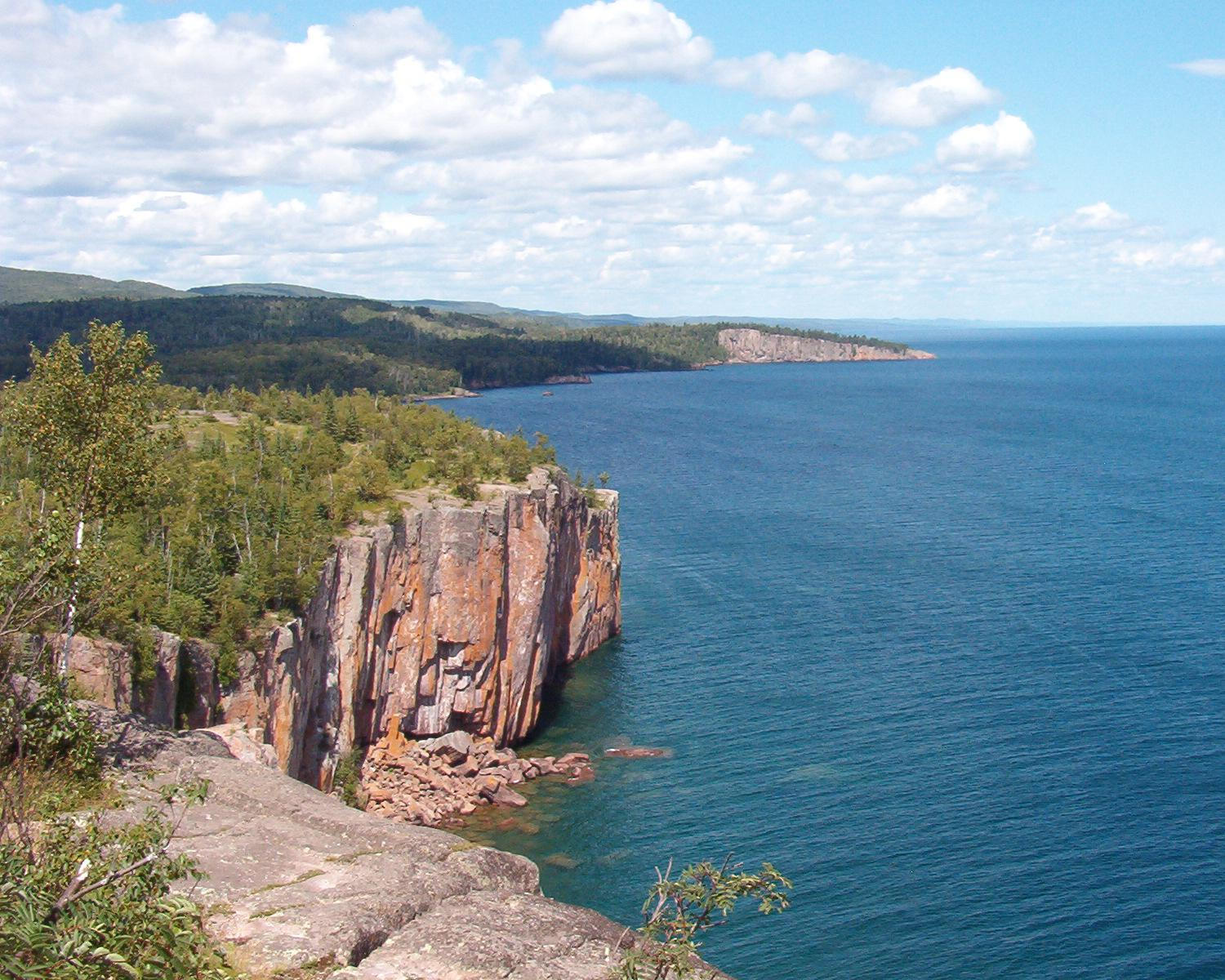 Palisade Head looking NE toward Shovel Point in Minnesota's Tettegouche State Park on the North Shore of LakeSuperior; cropped version of [1].